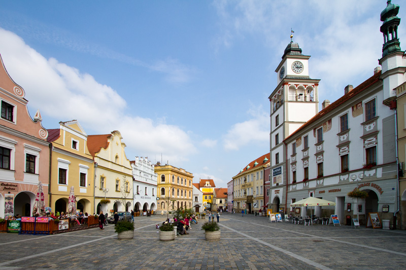 Masaryk square, Třeboň, Czech Republic